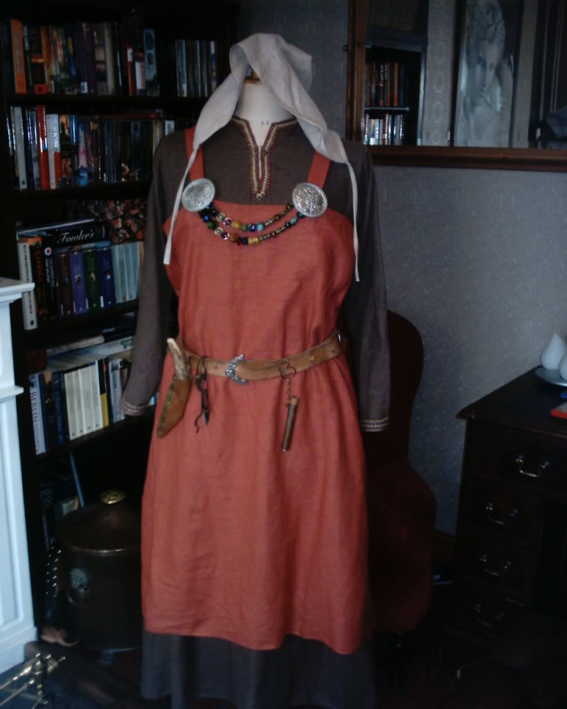 Image of a (reddish) replica hangaroc, hangerock or smokkr.